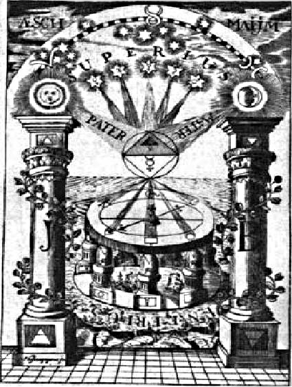 Mystical alchemical diagram of Boaz and Jachin pillars of the Temple of Jerusalem, interpreted as cosmic principles.